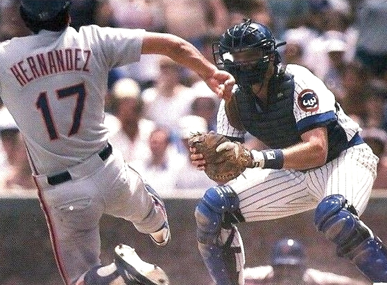 New York Mets first baseman Keith Hernandez (left) sliding into home plate while Chicago Cubs catcher Jody Davis (right) plays defense.